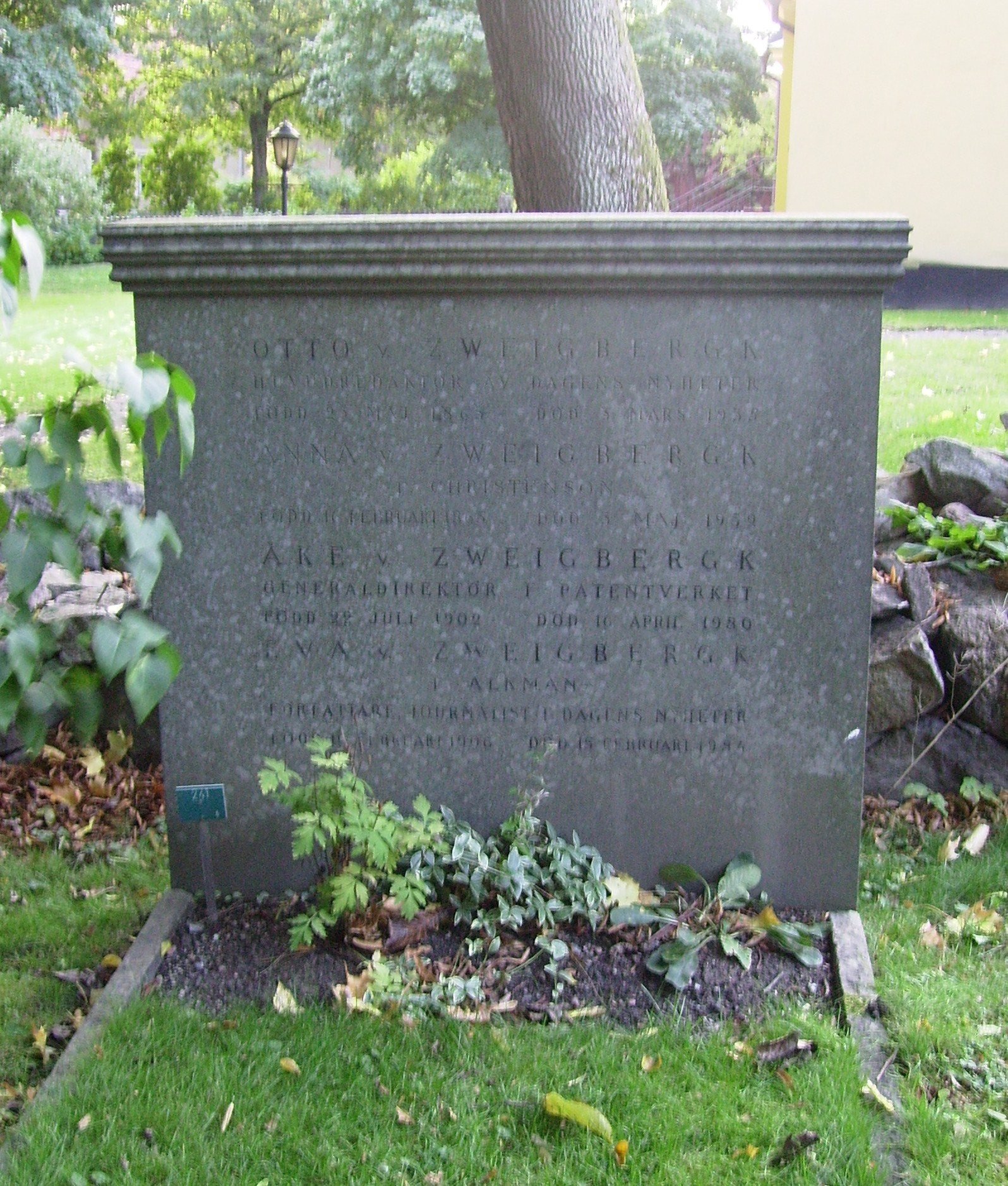 Picture of Otto von Zweigbergk's grave at Solna kyrkogård